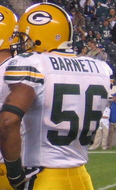 photographed by DK nick barnett #56, cropped by User:Royalbroil from Image:GreenBayPackers2006HodgeBarnettTaylorPoppinga.jpg source imageGreen Bay